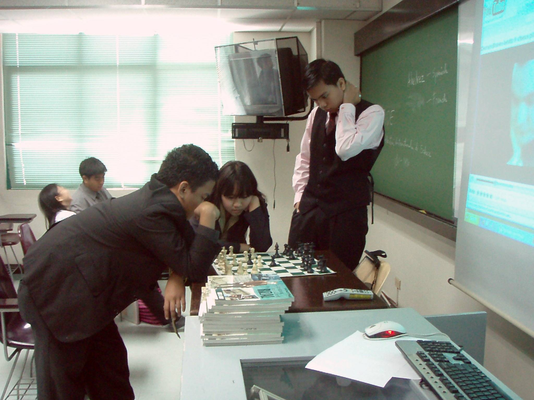 Students of Angelo King International Center, De La Salle-College of Saint Benilde doing chess for mental training